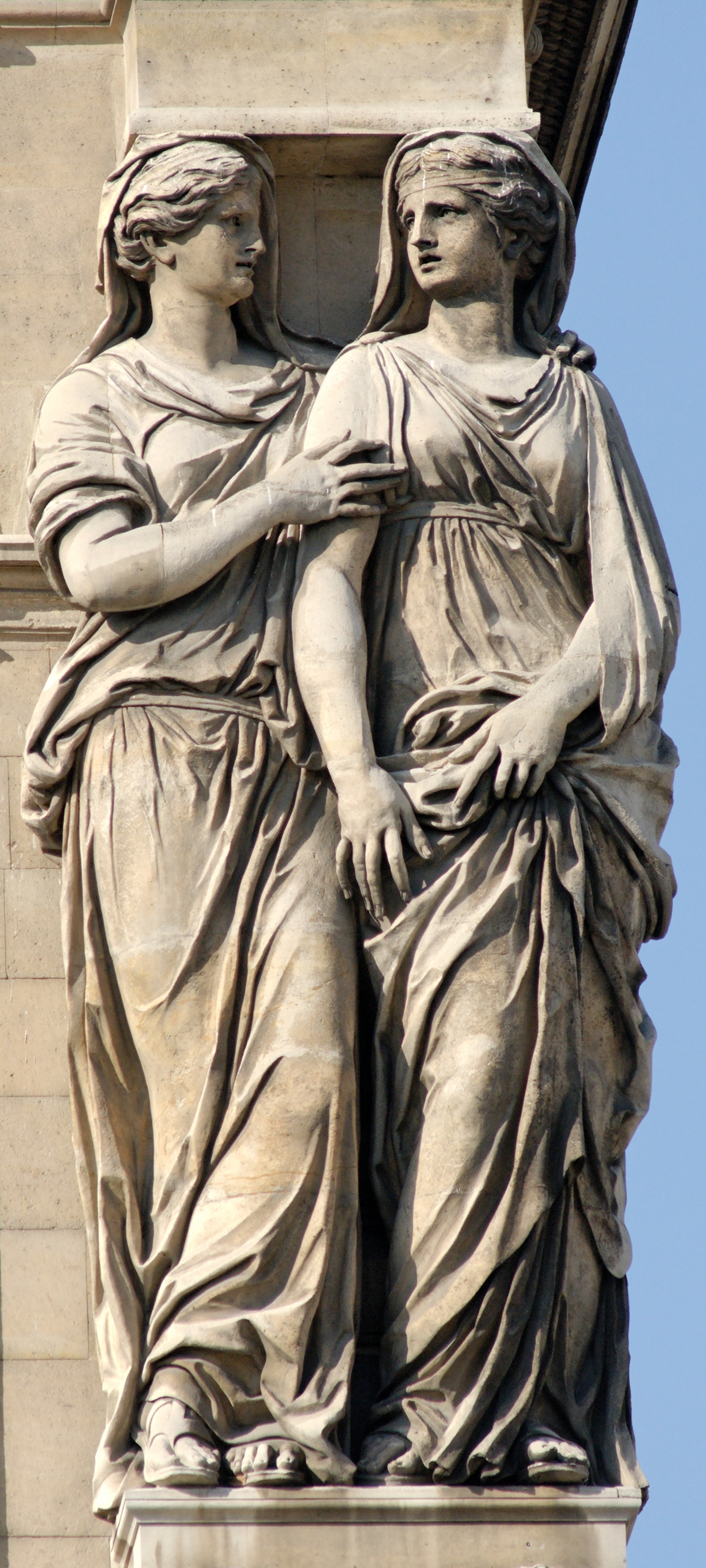 Double caryatids, after drawings by Jacques Sarazin. First pair from the right, Pavillon de l'Horloge of the cour Carrée in the Louvre palace, Paris.